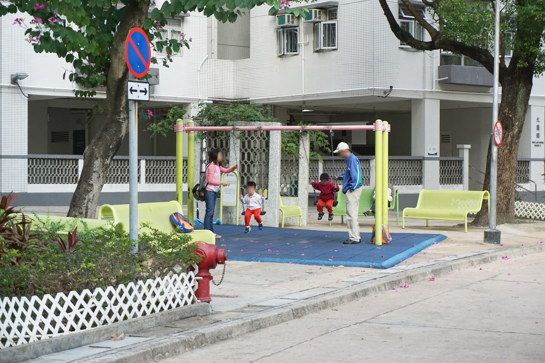 Chun Man Court in Ho Man Tin, Hong Kong.